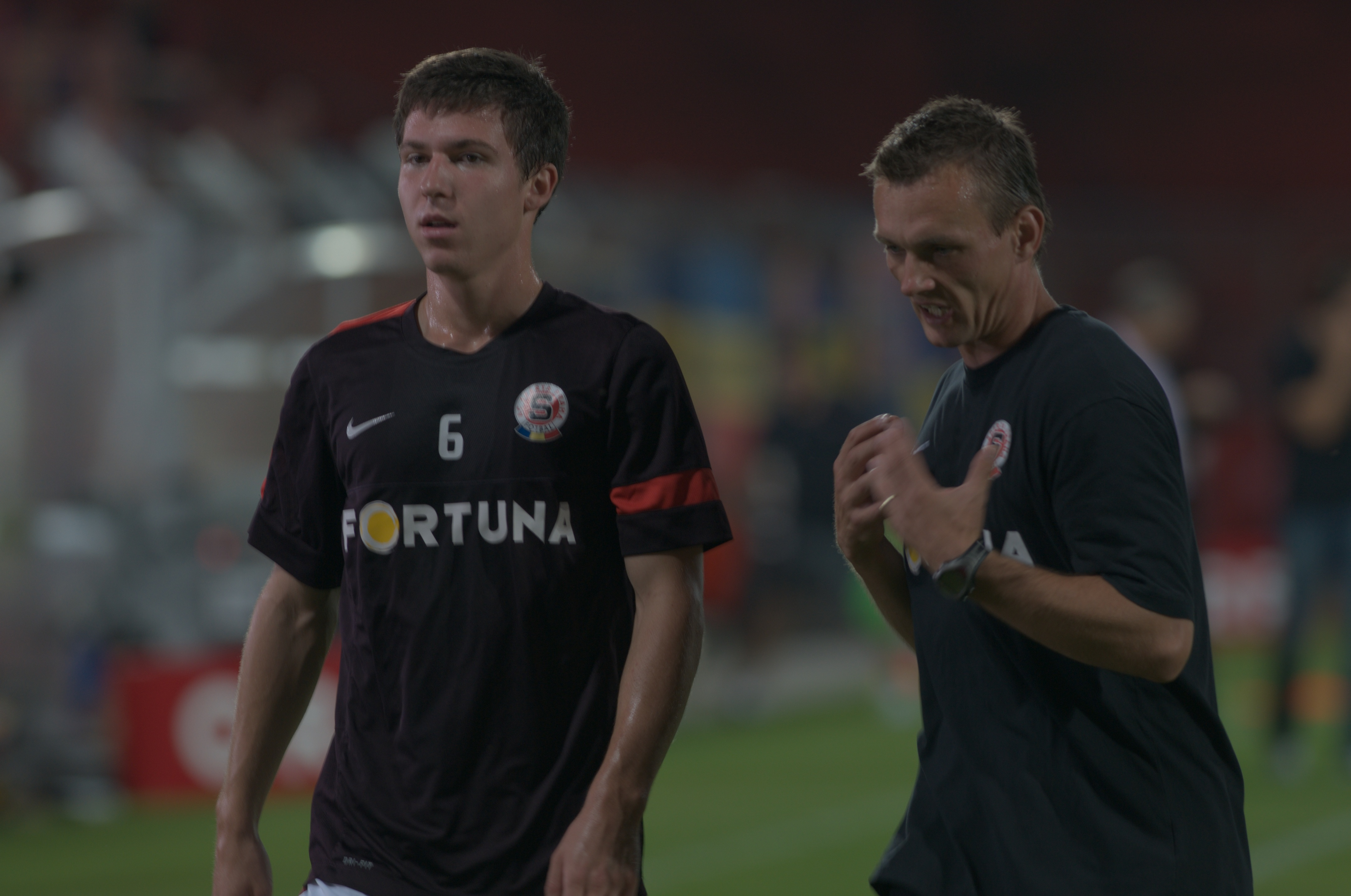 Tomáš Přikryl The making of this work was supported by Wikimedia Austria. For other files made with the support of Wikimedia Austria, please see the category Supported by Wikimedia Österreich.